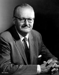 Picture of the américan sociologist William Lloyd Warner